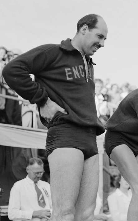 D Hawkins (winner) and other athletes on the podium at an awards ceremony during the 1950 British Empire Games, photographed in February 1950 by an Evening Post photographer.